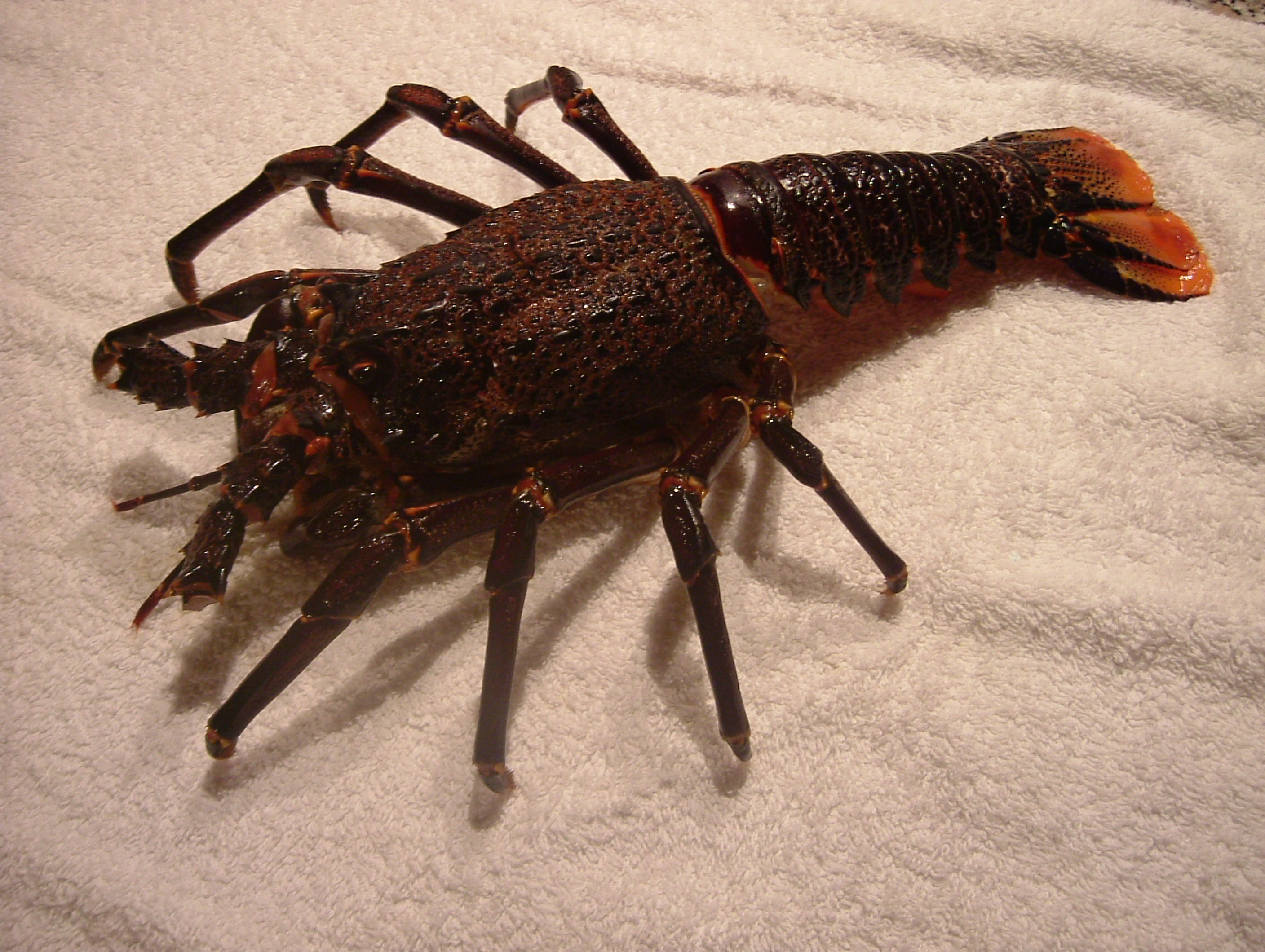 Picture taken shortly after capture. Note the absence of the antennas due to rough handling.